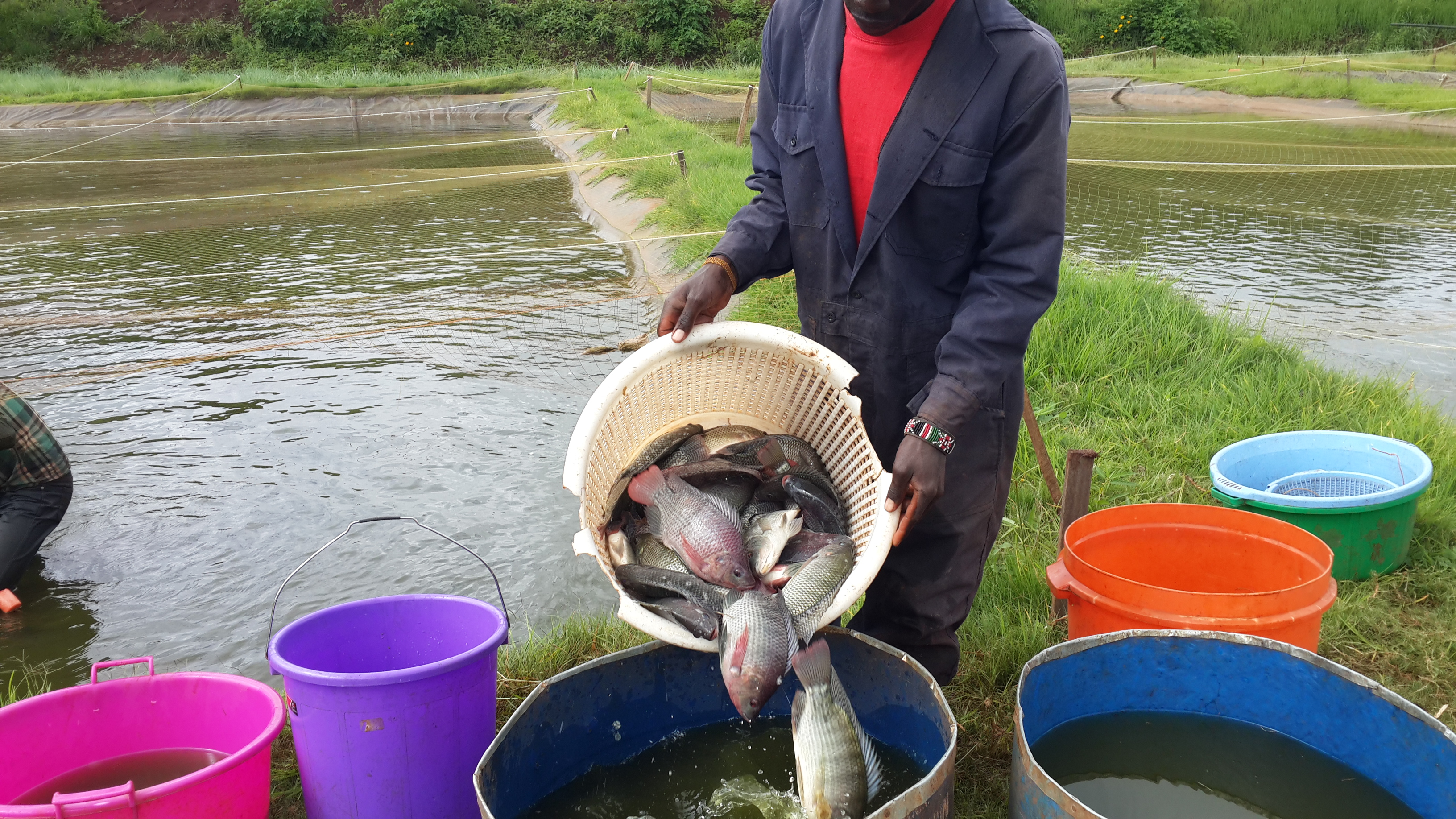 Harvesting of tilapia for market at Makindi Fish Farm Kenya This is an image of "African people at work" from Kenya